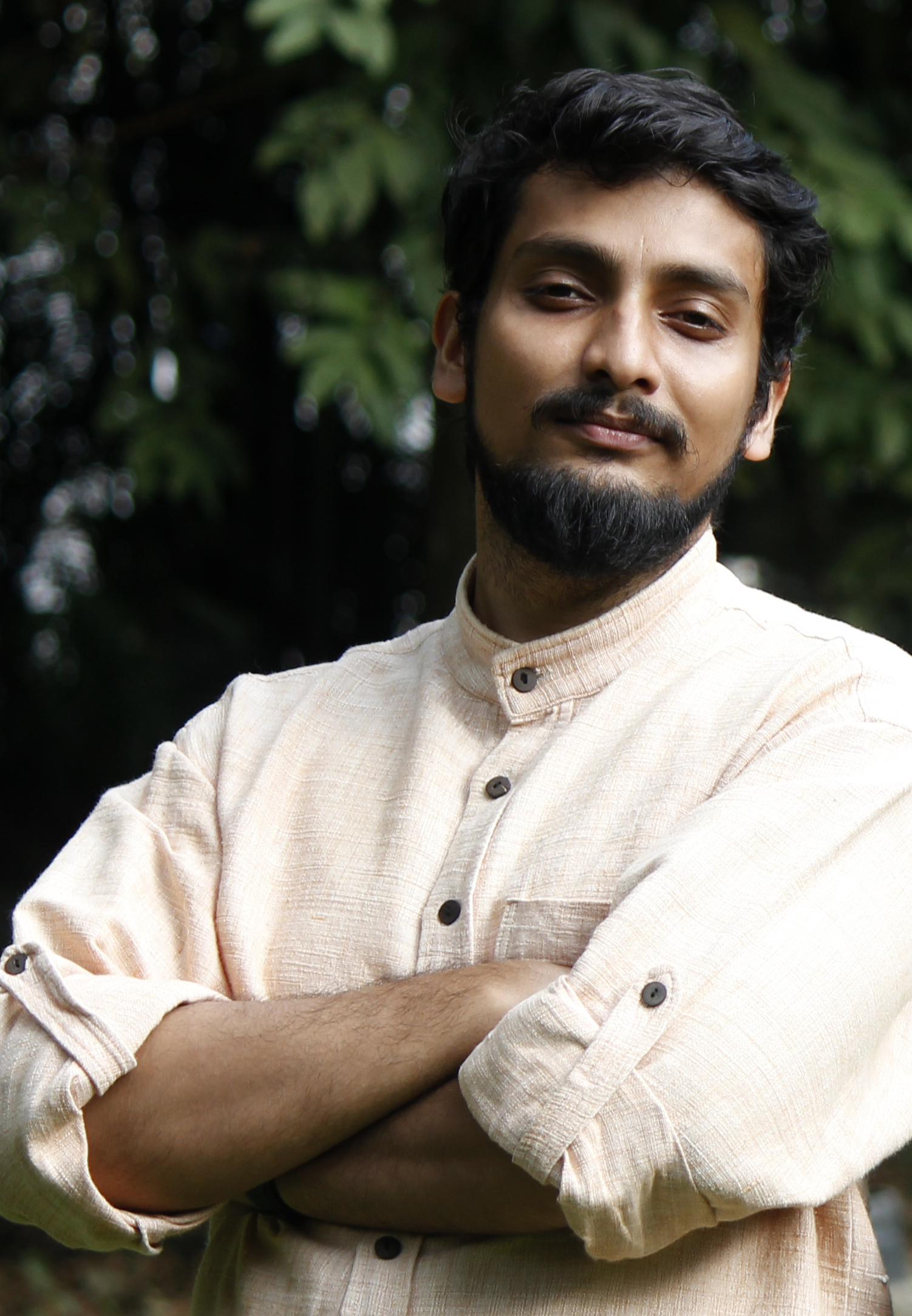 Soukarya Ghosal in Kolkata